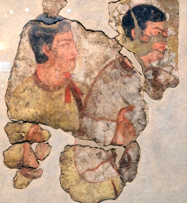 Fayaz Tepe, Wall Painting of a group of courtiers